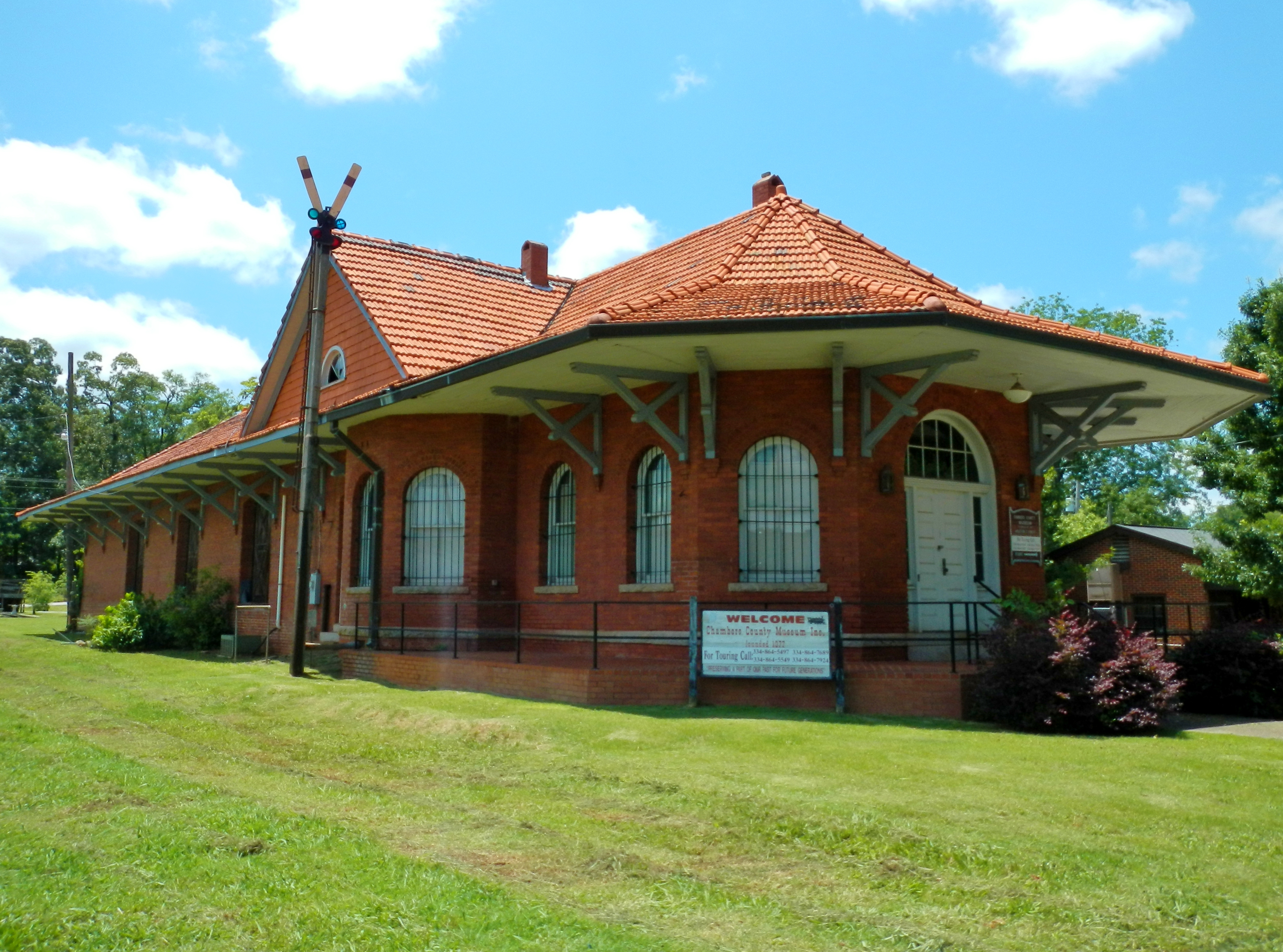 This is a photograph of the Chambers County Museum located in the former Central of Georgia railway depot, the Chambers County Museum contains a rich variety of exhibits reflecting life in the county as it was in yesteryear. The depot itself is of masonry construction with a tile roof built in 1908 after fire destroyed the original wood structure. The freight room interior still bears the names of local businesses on the walls to aid in identifying their delivered shipments. A large scale built into the floor of the freight room still weighs correctly to the ounce.